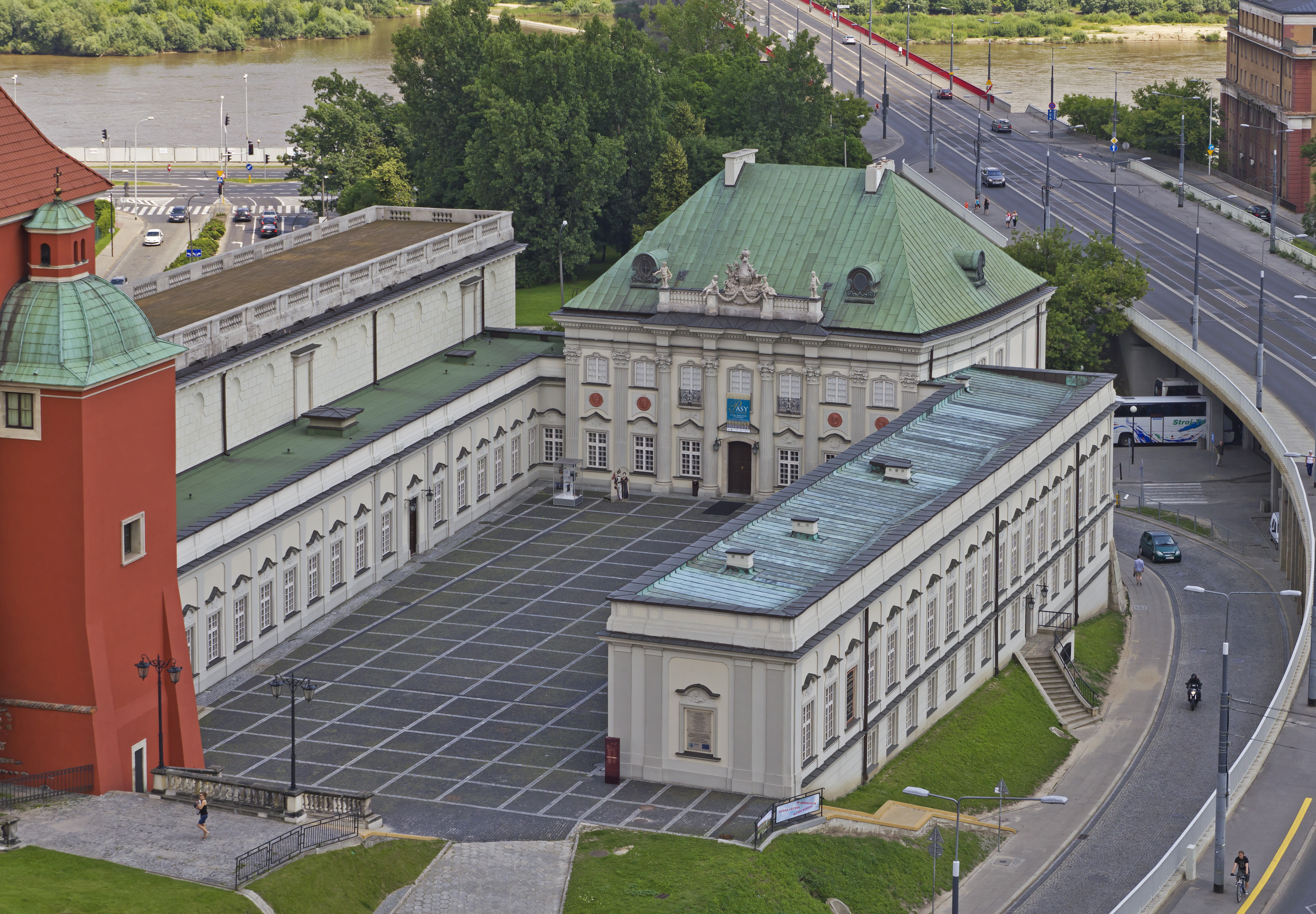 View from the St. Anne Church tower at Castle Square in the Old Town (Stare Miasto) in Warsaw (Poland). Palace «Under the sheet metal roof».